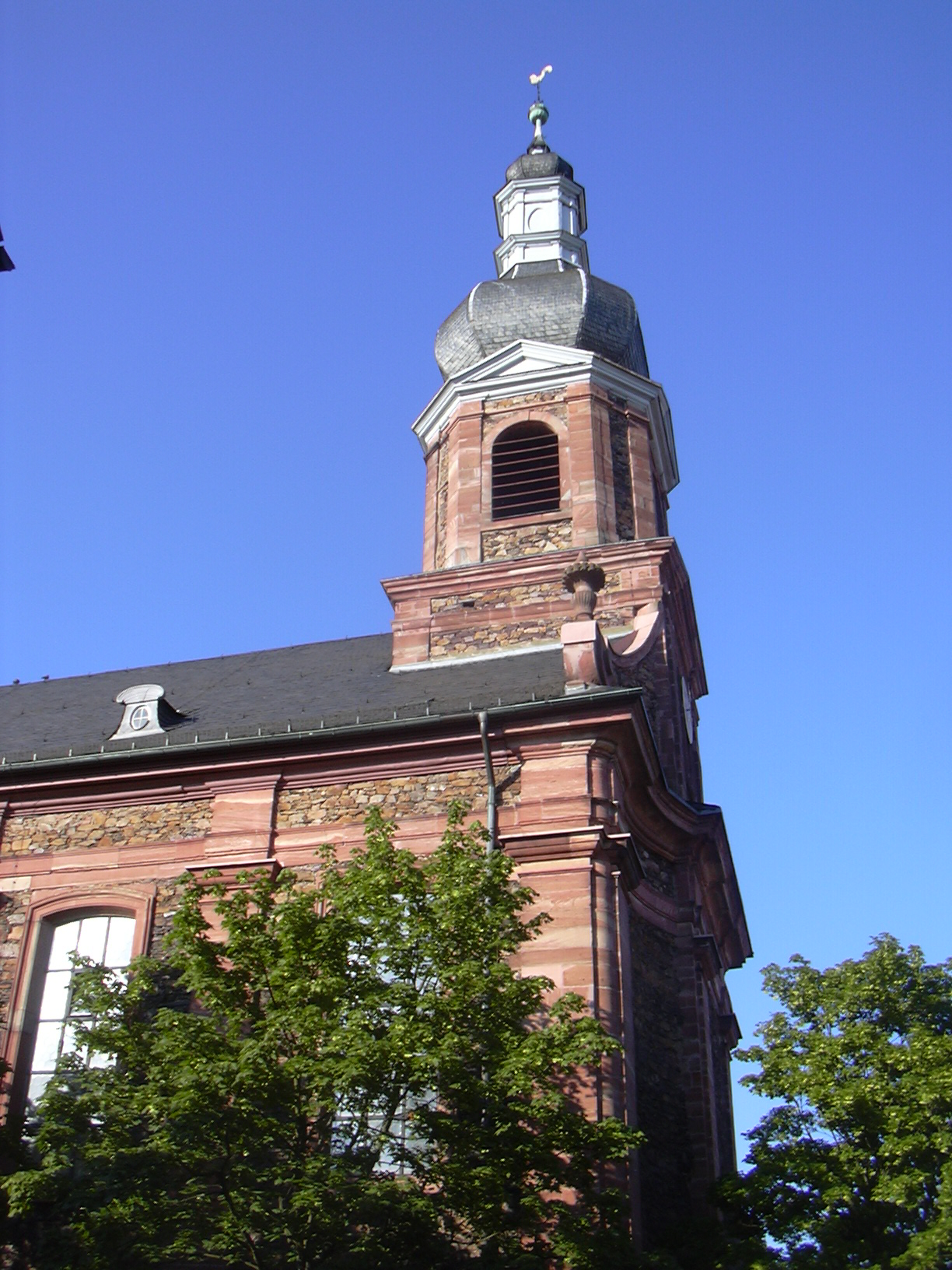 Church St. Justin (1758), successor of an older, destroyed church dedicated to St. Justin, Alzenau, near Aschaffenburg, Bavaria/Germany